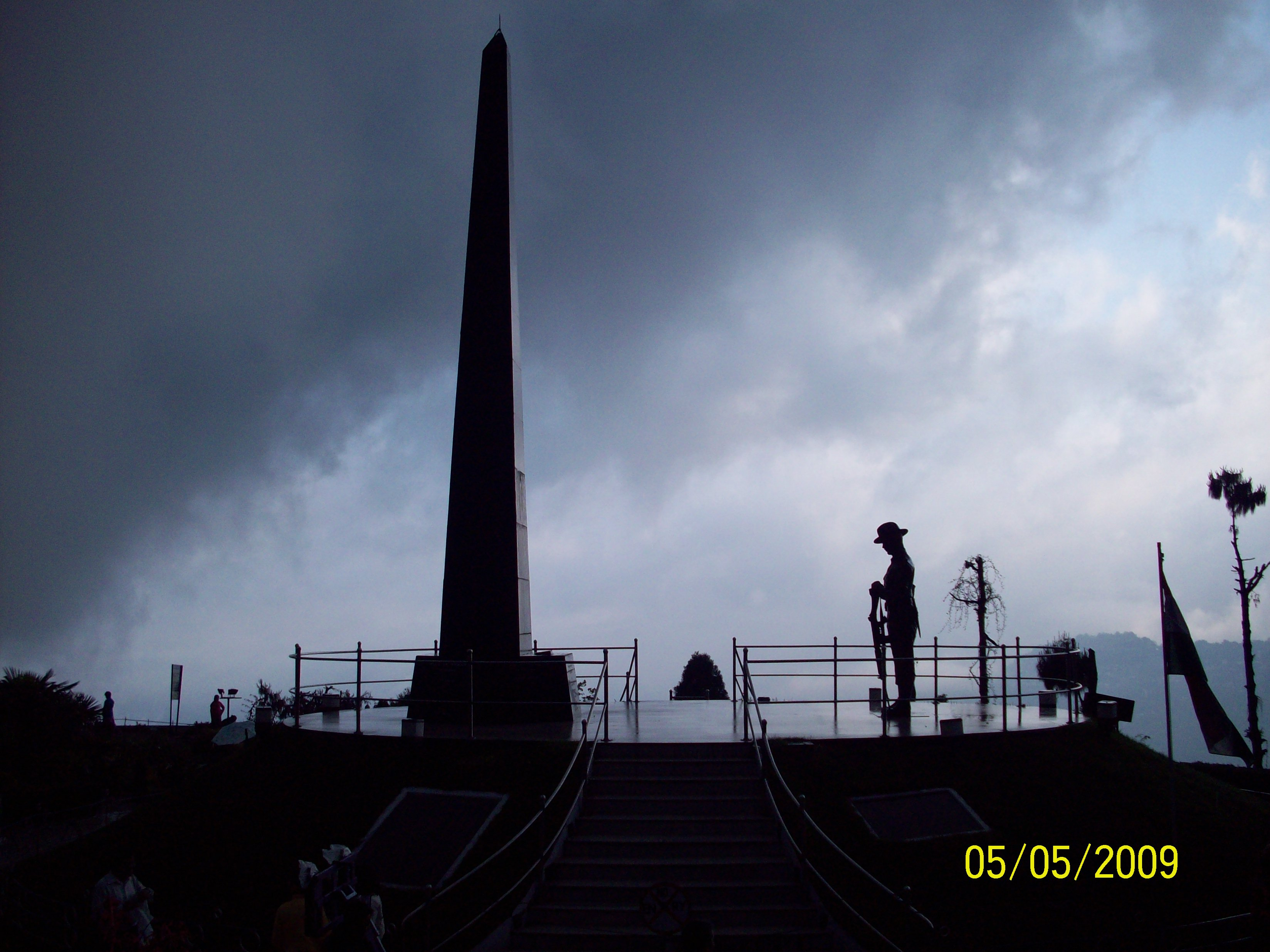 Caption: Memorial to the Gorkha Soldiers at Batasia Loop, Darjeeling Taken at: Batasia Loop, Darjeeling Name: Ananya Biswas Email ID: Camera Model: Kodak Easyshare M853 Technical Specification: Image: Dimension: 3296 x 2472, Resolution: 480dpi x 480dpi, Bit Depth: 24, Resolution Unit: 2, Color Representation: sRGB, Contrast: Normal, Brightness: Normal, Exposure Program: Normal, Saturation: Normal, Sharpness: Normal, White Balance: Auto, Digital Zoom: 0 Camera: F-stop: f/5.6, Exposure Time: 1/248 sec., Exposure Bias: 0 Step, Max aperture: 2.97, Metering mode: Pattern, Flash: No, 35mm Focal Length: 37